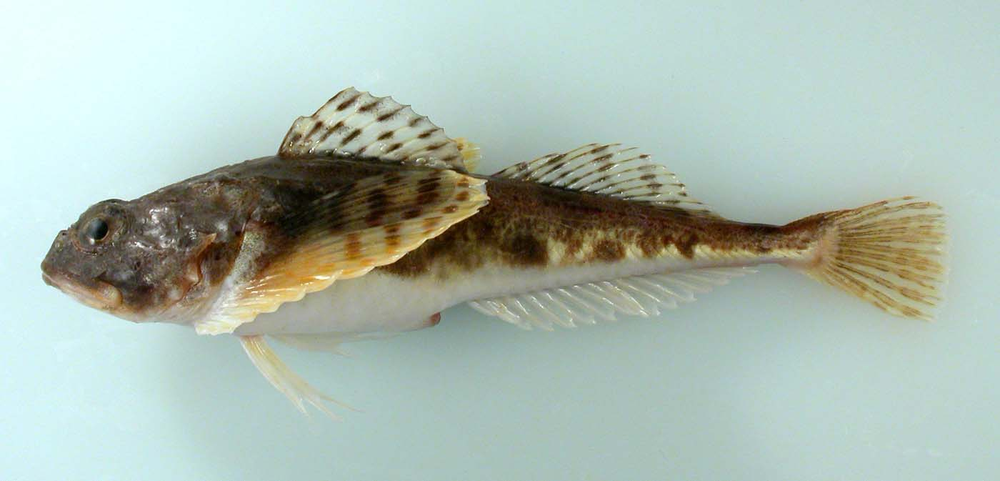 Arctic Staghorn Sculpin Gymnocanthus tricuspis (Reinhardt, 1830)